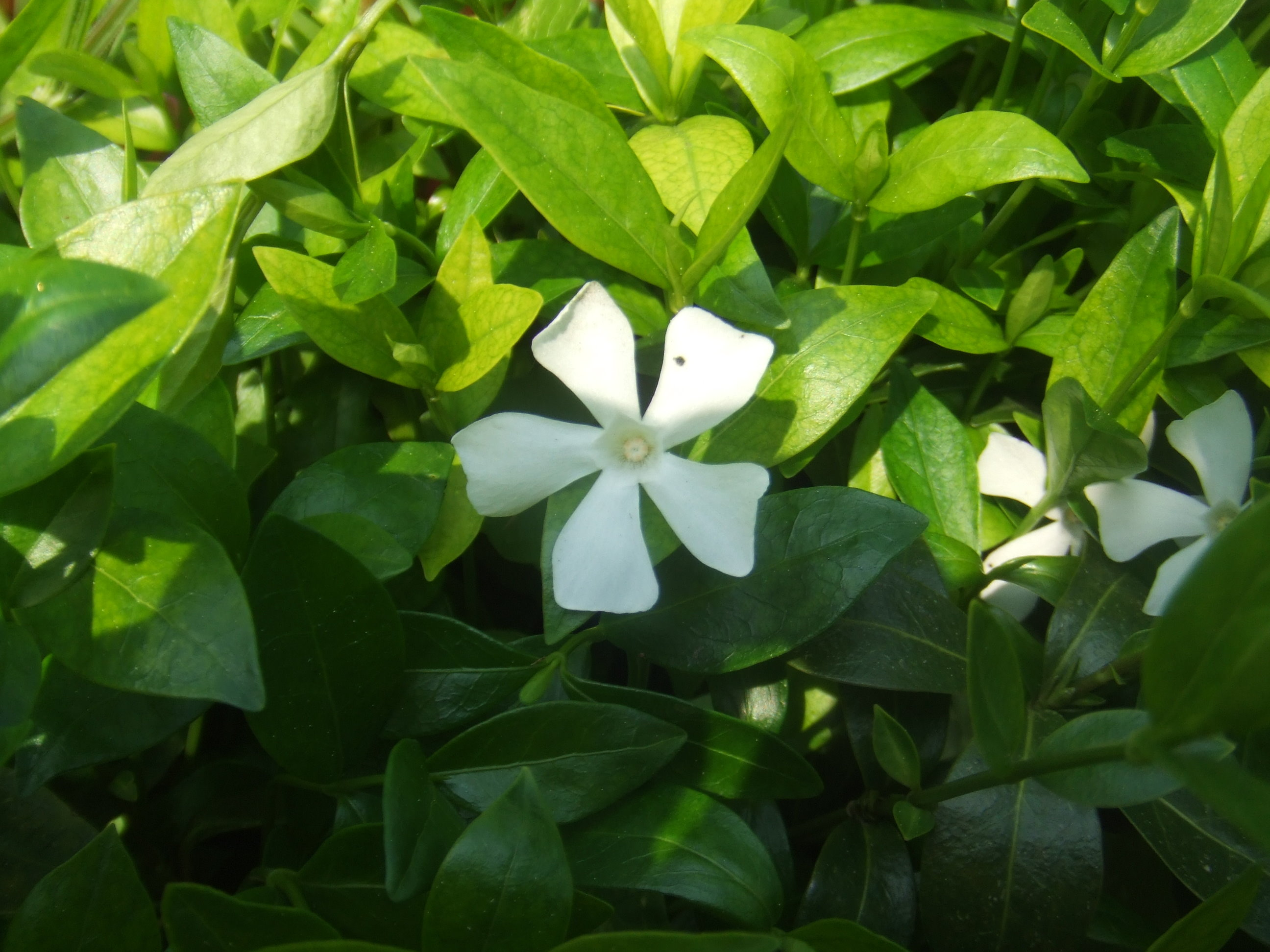 Vinca minor, picture taken at the Botanische tuin TU Delft in Delft, The Netherlands